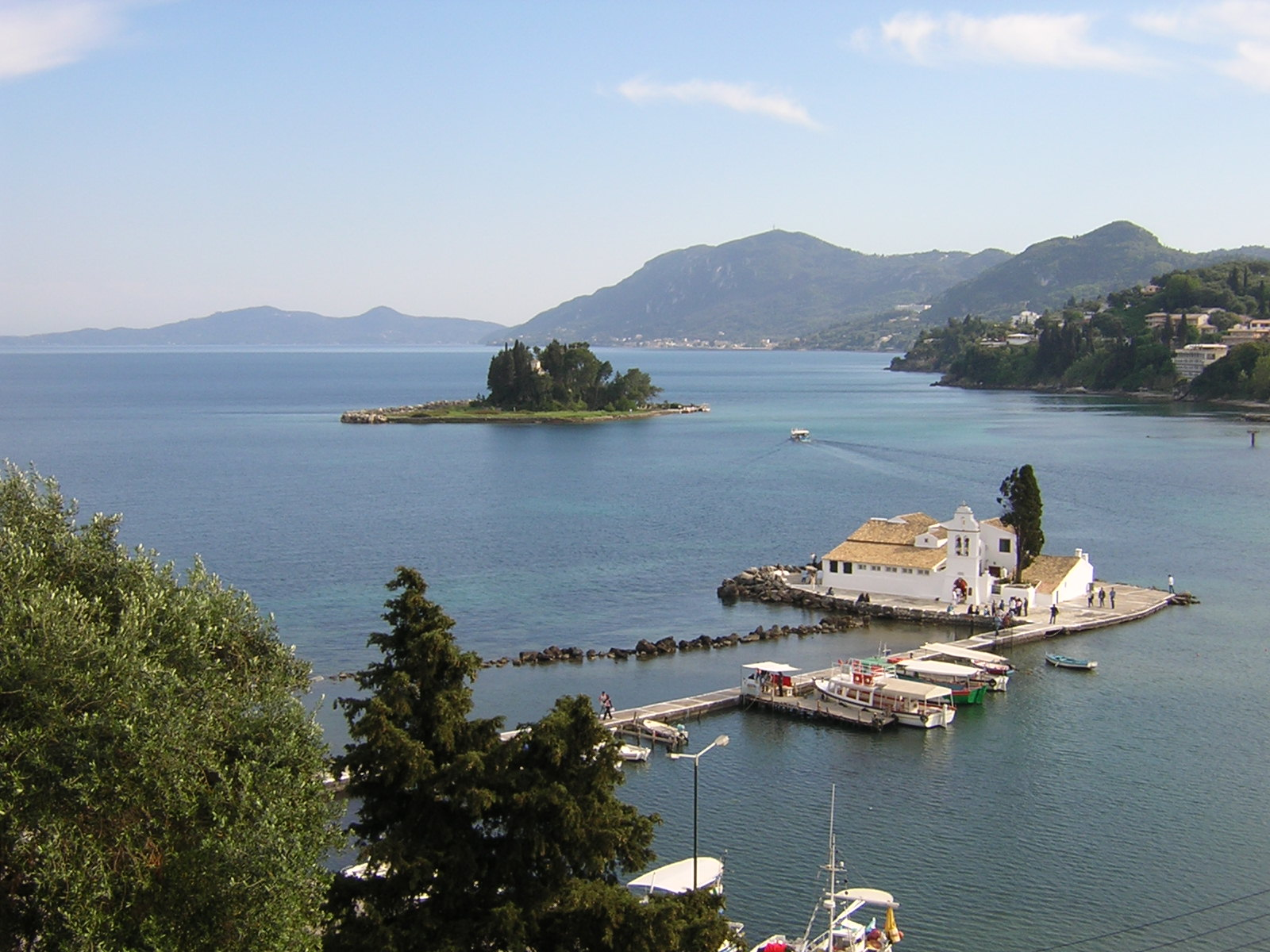 "Pontikonisi", a small island located opposite to "Kanoni". The location is about 5 km from the center of Corfu city, Corfu Island, Greece